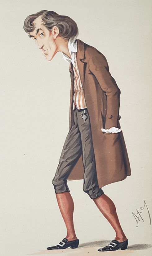 Caricature of Henry Irving in the melodrama The Bells, as depicted in the magazine Vanity Fair